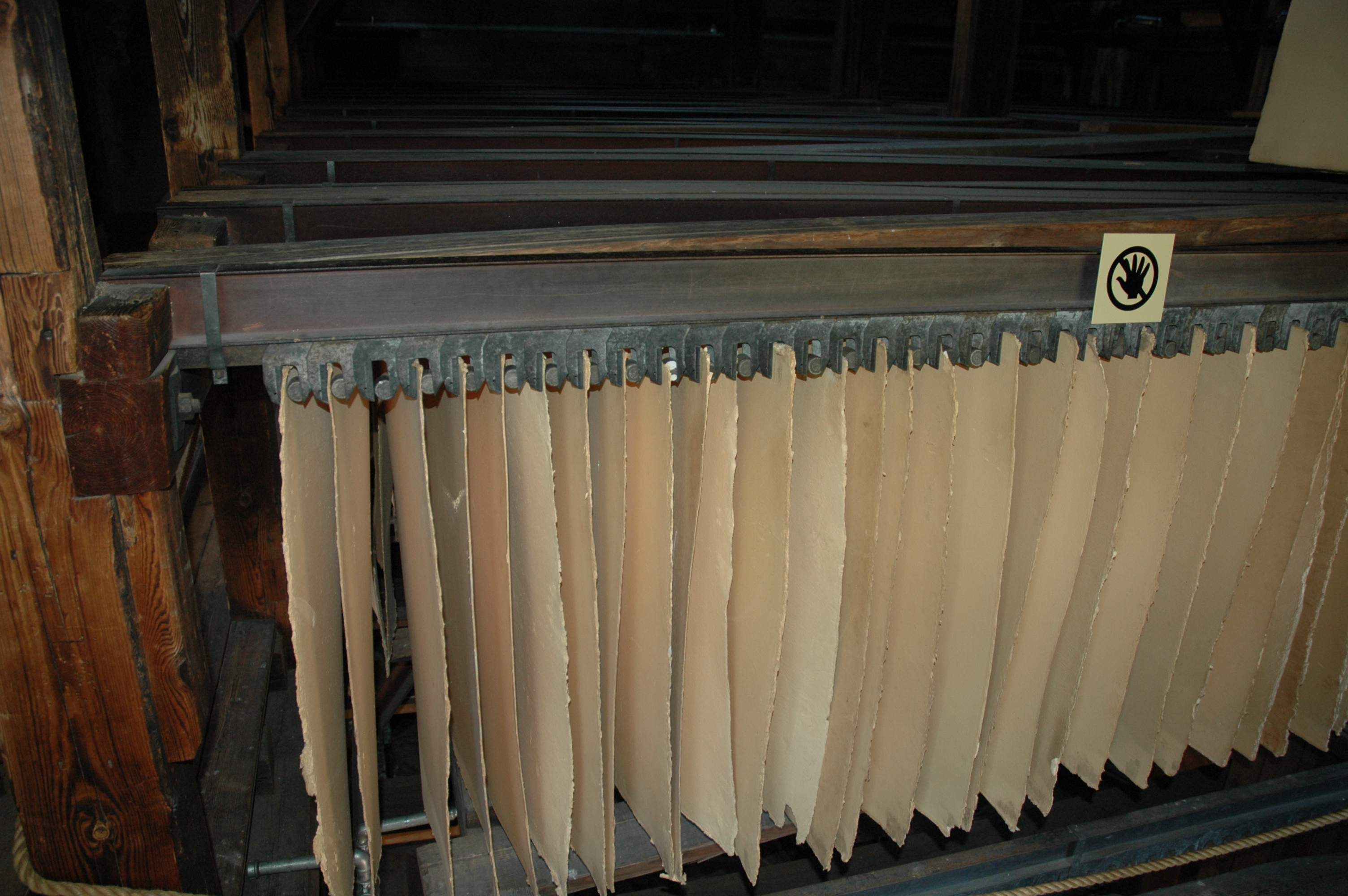 Boards drying in the Winter drying loft of the historical Verla groundwood and board mill (Finland)